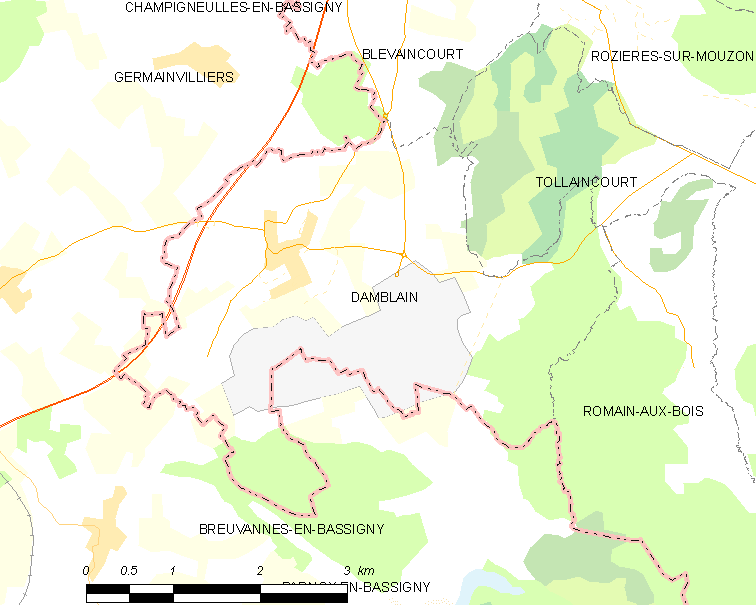 Map of French municipality Damblain